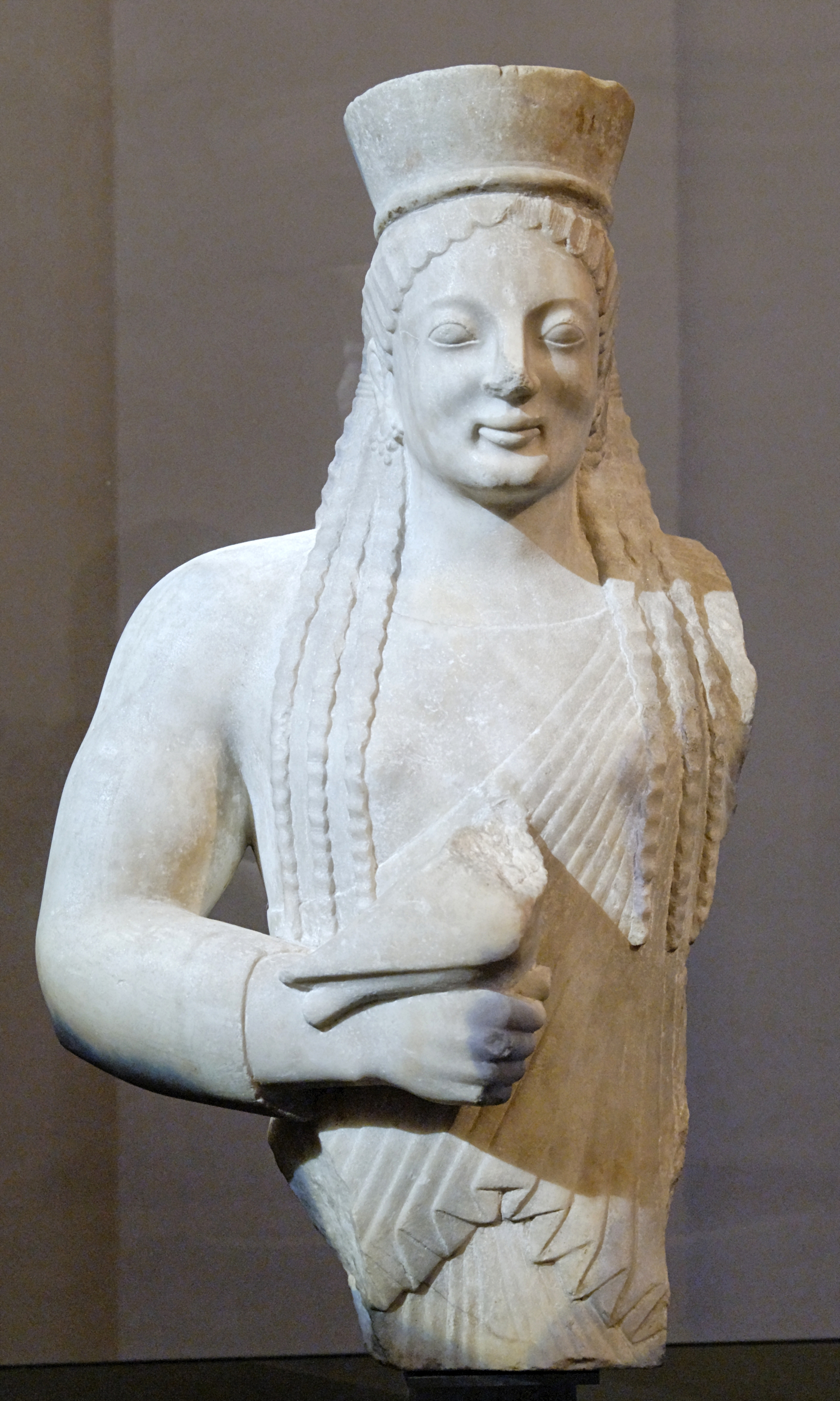 Woman wearing the Ionic dress (diagonal himation and chiton) and a pōlos and holding a bird. From the Acropolis of Athens, probably a caryatid.